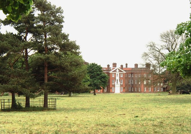 Langleys, Great Waltham Parts of the original house built around 1620 survive in the interior but much the exterior of Langleys was designed and built one hundred years later by its then owner, Samuel Tufnell.